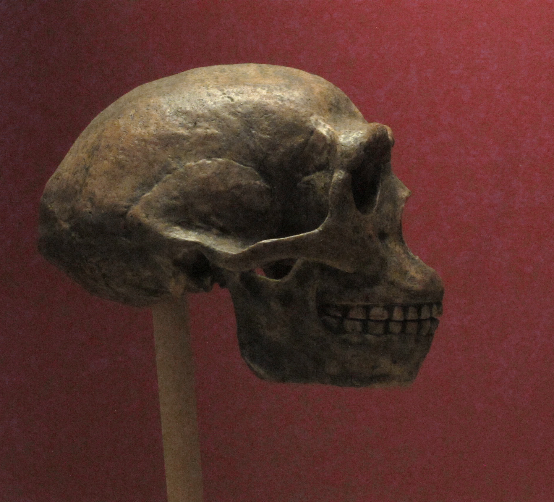 Reconstitution (cast) of the skull of a Peking Man. American Museum of Natural History. New York